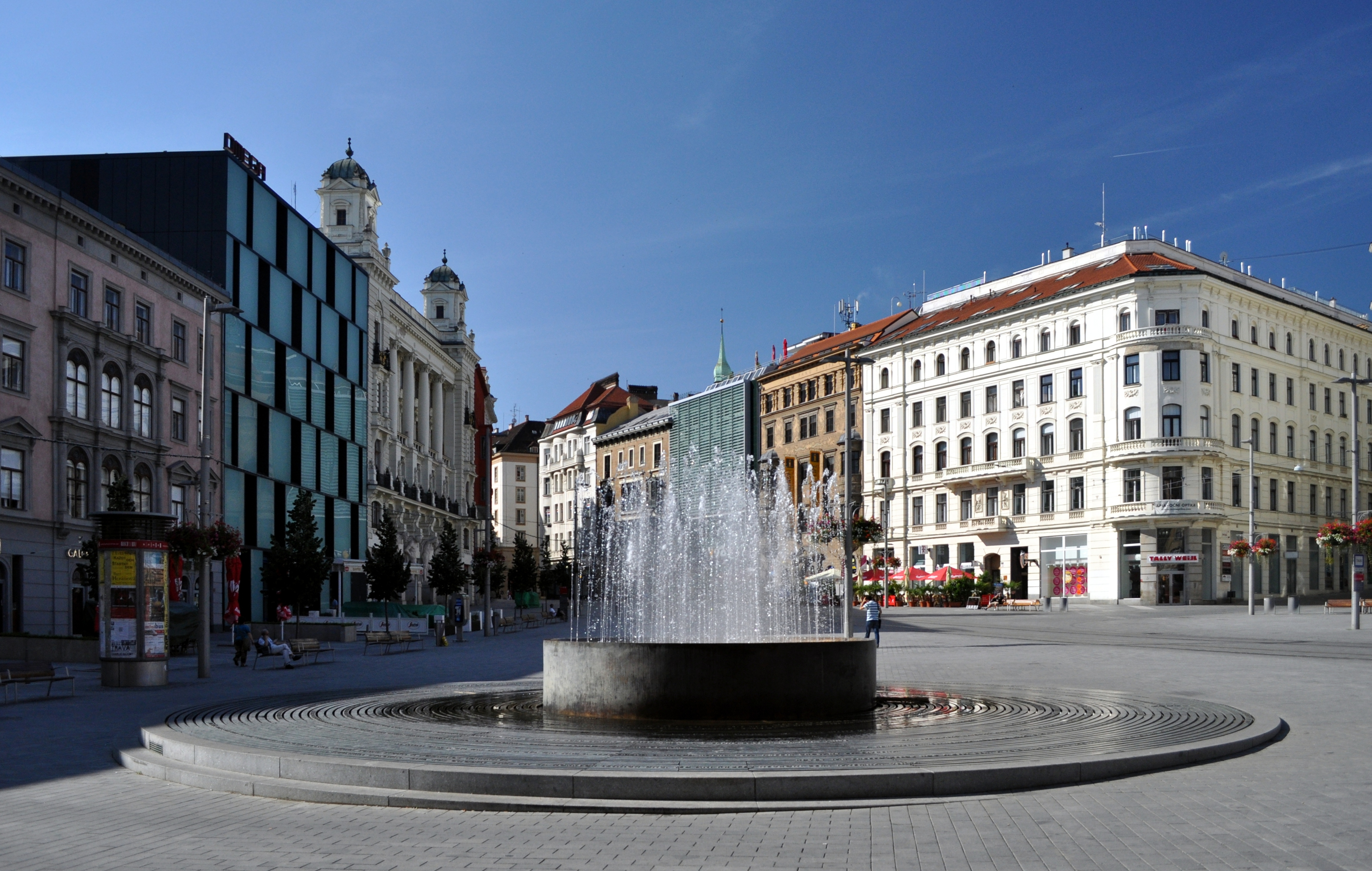 Liberty square in Brno, Moravia, Czech republic